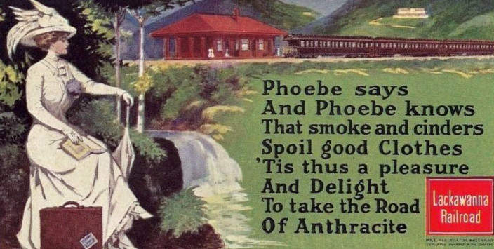 Postcard depicting the Lackawanna Railroad's advertising character, Phoebe Snow.